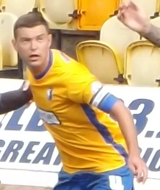 John Dempster. Image cropped from original at flickr.